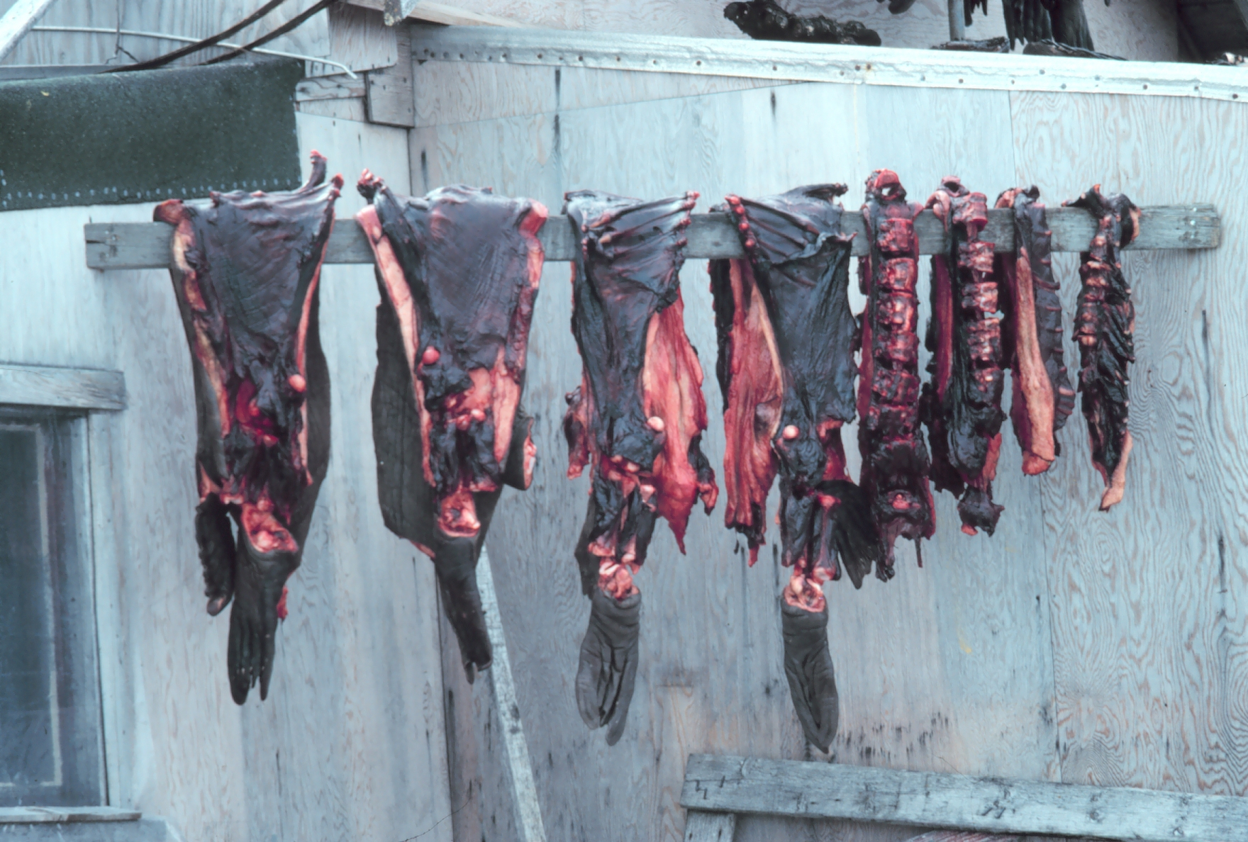 Seal meat hanging to dry on St. Lawrence Island, Savoonga, Bering Sea, Alaska, United States